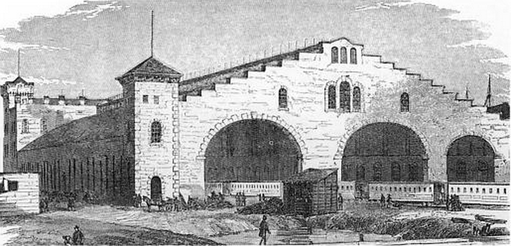 Illustration of the Great Central Station trainshed. Originally published in Leslie's Illustrated Newspaper, 2 (August 30, 1856), p. 189. Reproduced in Carroll L. V Meeks' The Railroad Station: An Architectural History (1956).